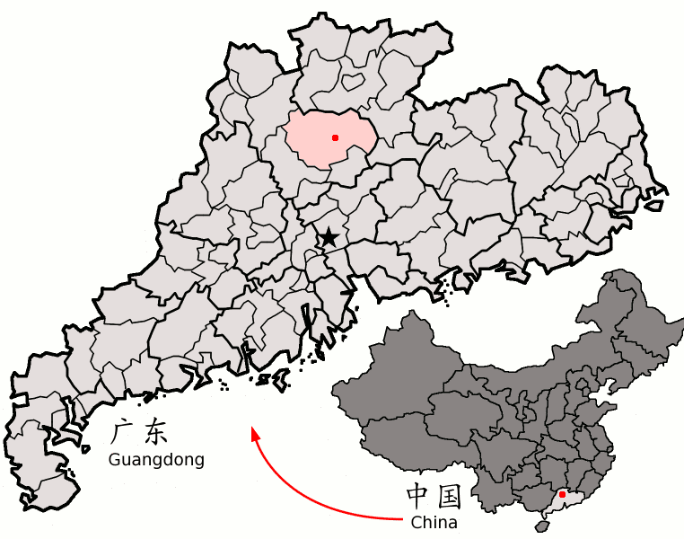 Location of Yingde city (red) and Yingde county (pink) within Guangdong province of China